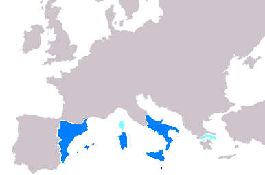 Anachronous map of the Aragonese Empire. Light blue marks possessions never incorporated into the Crown of Aragon.